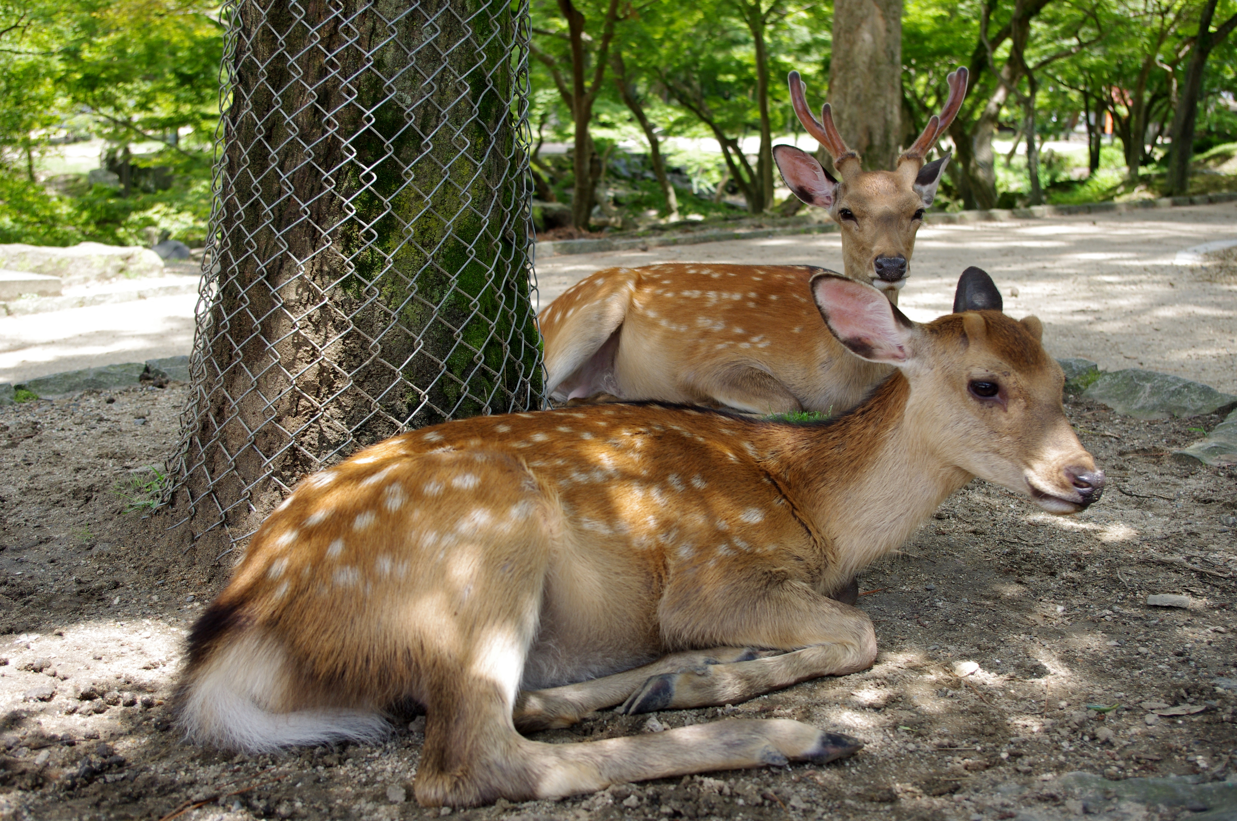 Sika deer in the town of Nara